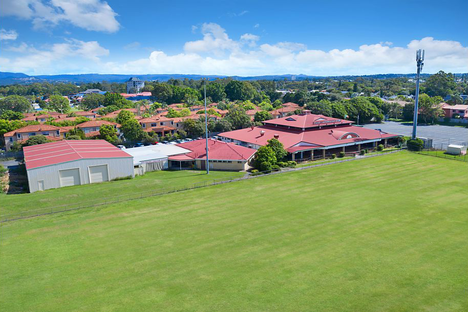 Merrimac Football Club Ground